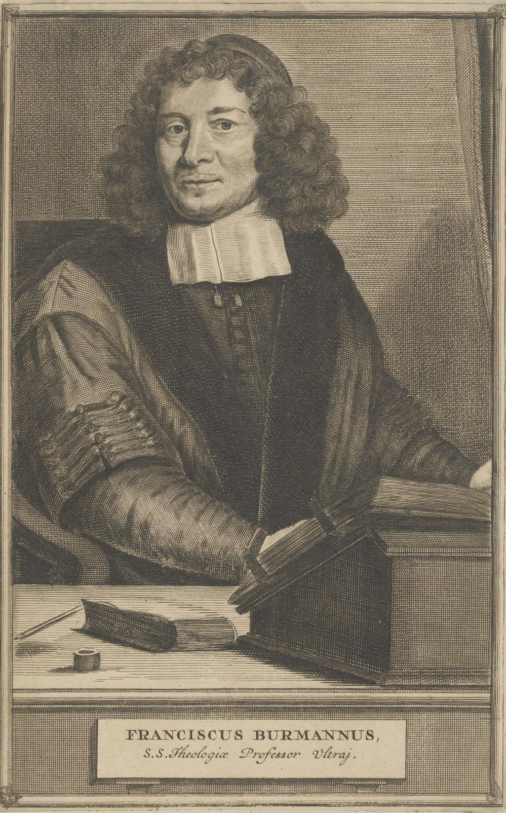 Dutch minister Frans Burman.